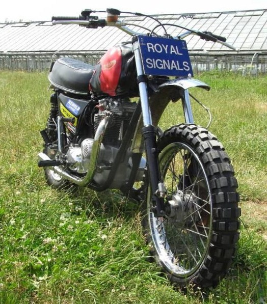 White Helmets Royal Signals Display Team Triumph TR7V 750 Tiger Genuine British Army Royal Signals 'White Helmets' Display Team 750cc Triumph Tiger TR7V manufactured either by the Meriden co-operative or LF Harris, a businessman who took over manufacture of Triumphs under licence after the co-operative closed in1983